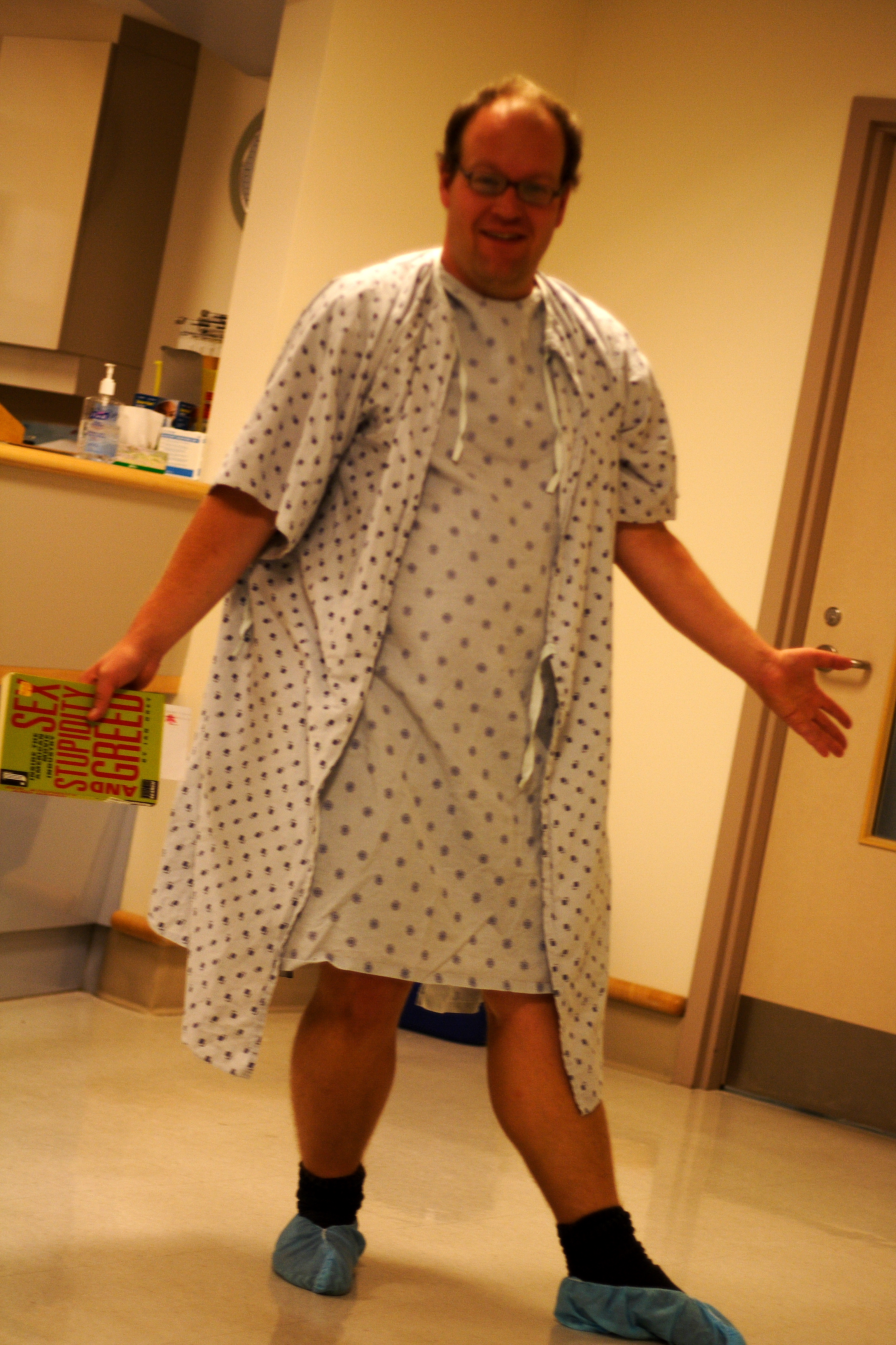 Patient hospital gown